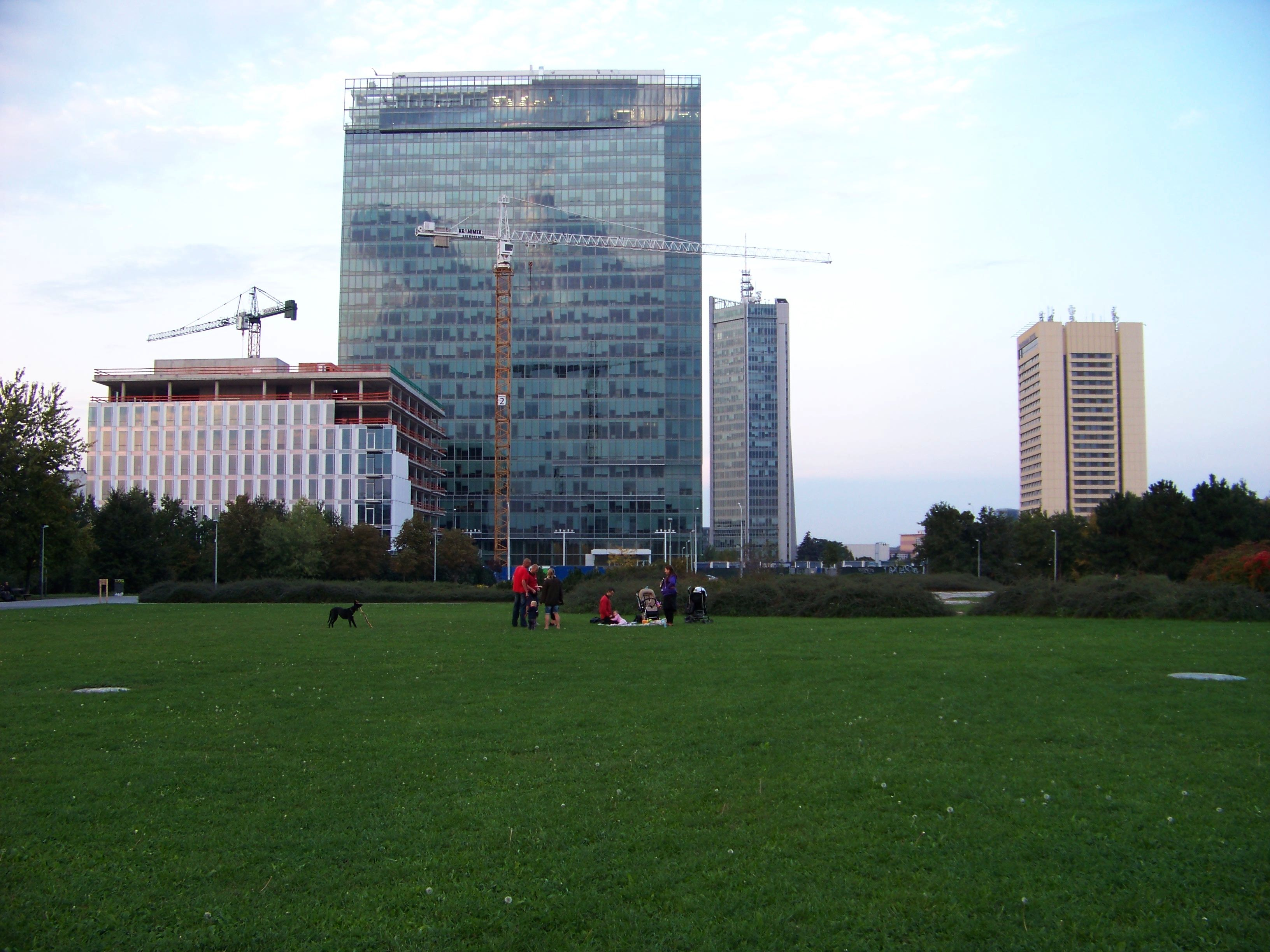 Prague-Nusle and Krč, the Czech Republic. Pankrác, Central Park, City Green Court, City Tower, City Empiria (Motokov) and Panorama Hotel Prague.